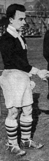 Scottish football player, James Gallagher, before playing a friendly match v. Argentine club Velez Sarsfield.